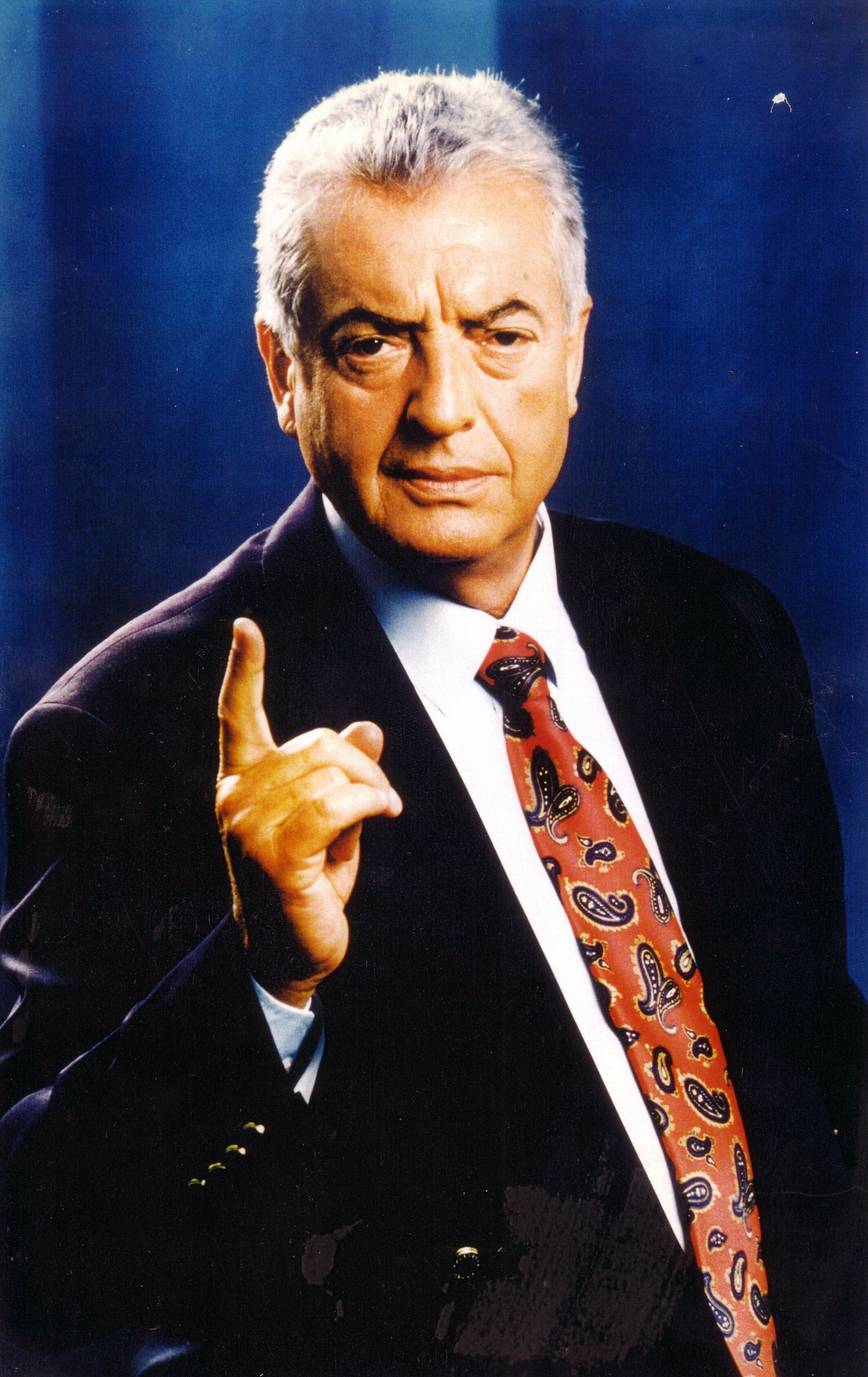 Plato Sharon